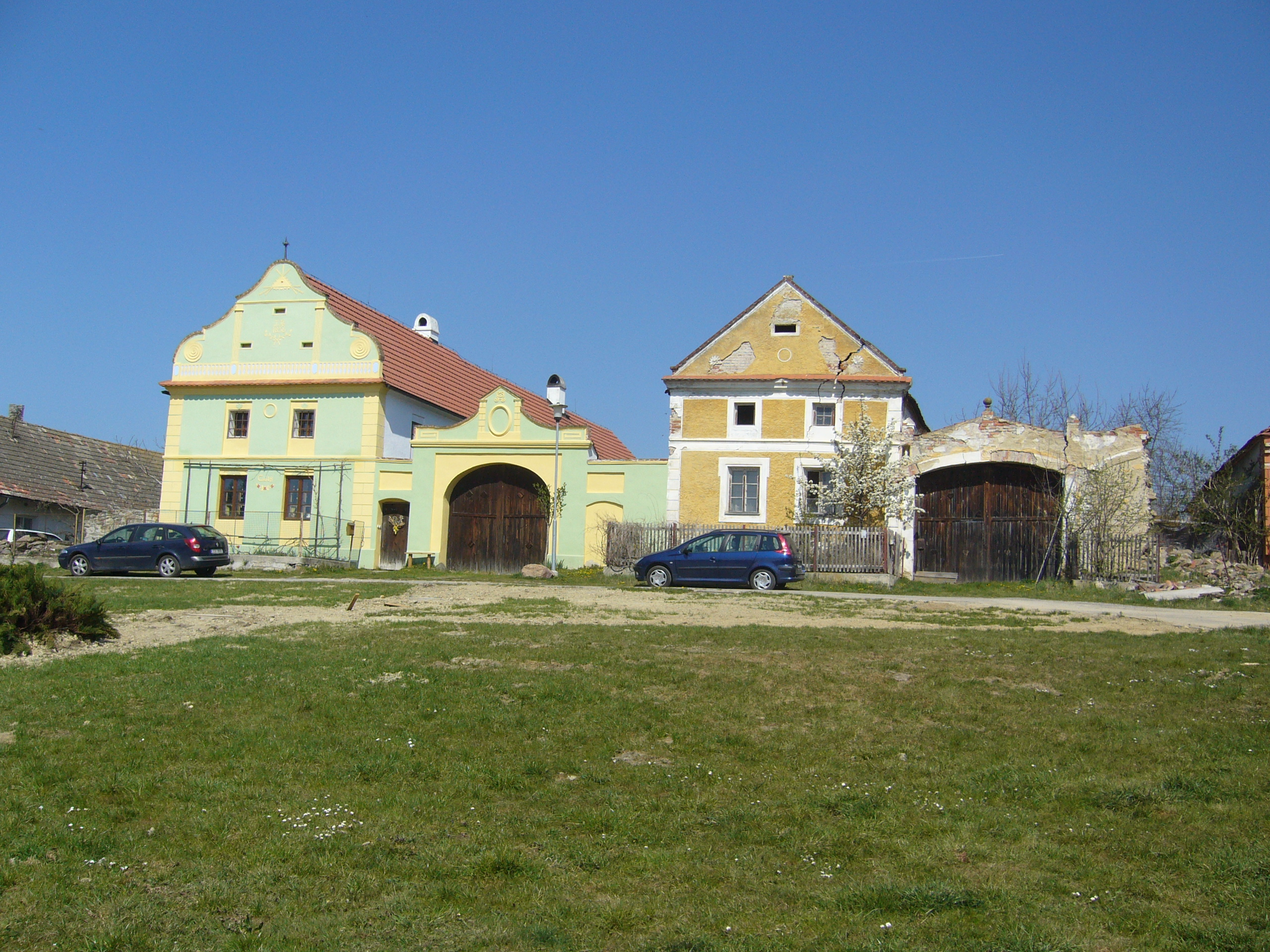 Rural homestead nr. 18 in Folk Baroque style in Plástovice (part of village Sedlec), České Budějovice District, South Bohemia region